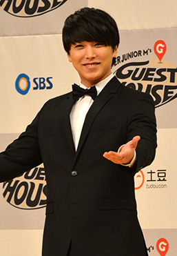 Super Junior's Sungmin.조선말: 슈퍼주니어 성민.